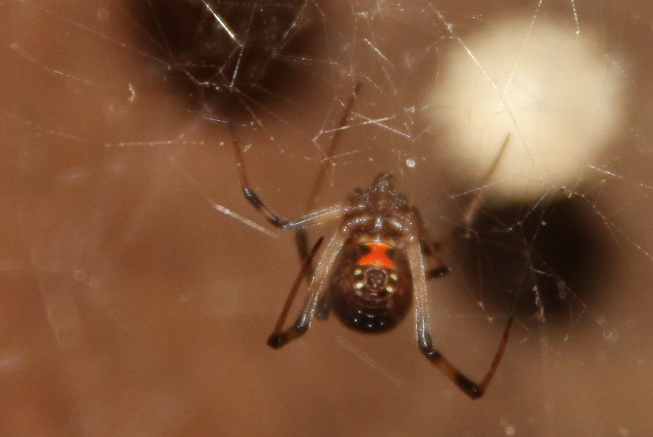 Latrodectus antheratus with red hour glass. Taken in San Pedro, Paraguay